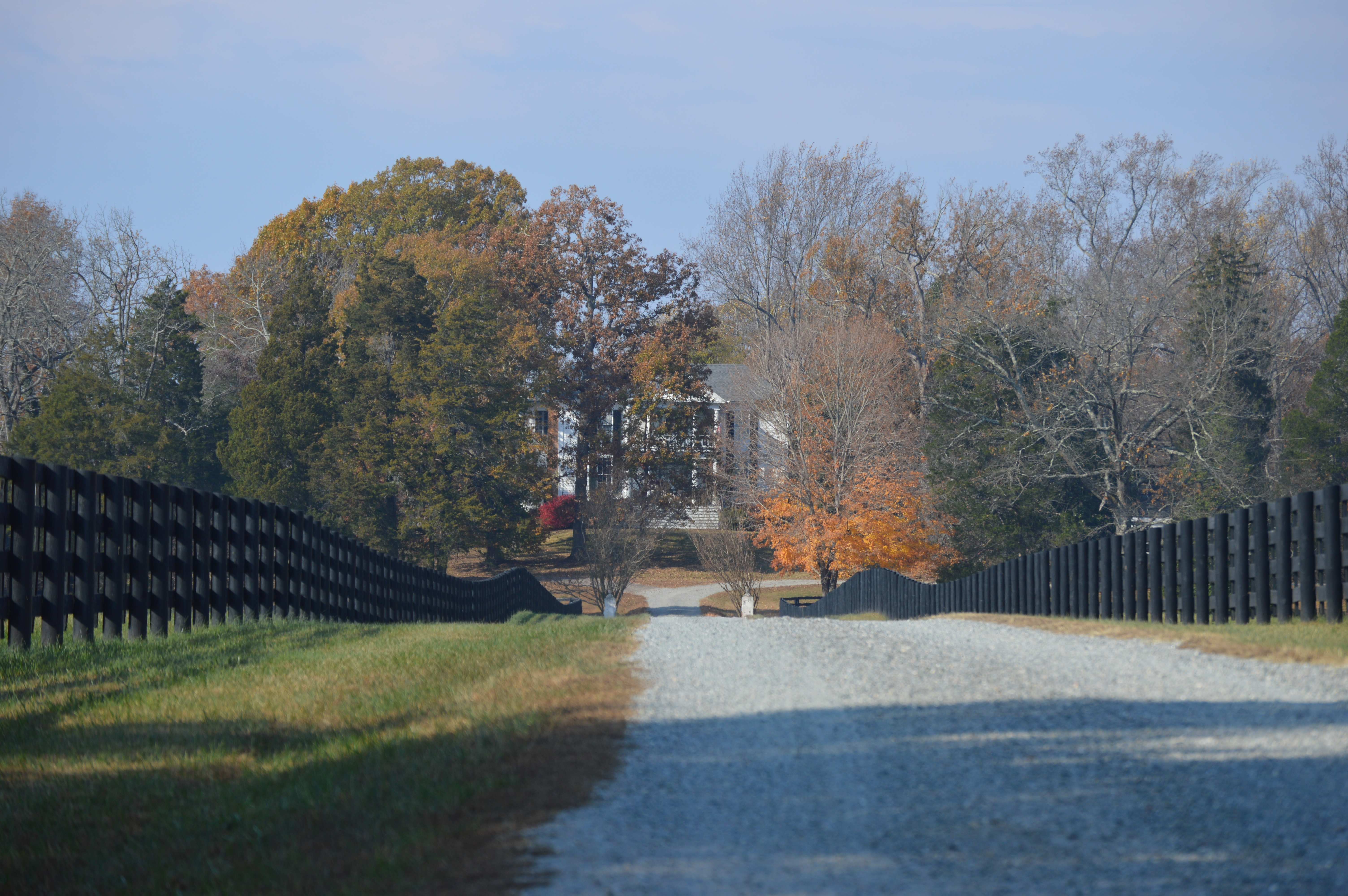 Driveway view of Grave Hill, located at 3990 Fearstown Road north of Harrisburg in Charlotte County, Virginia, United States. Built in 1847, it is listed on the National Register of Historic Places.